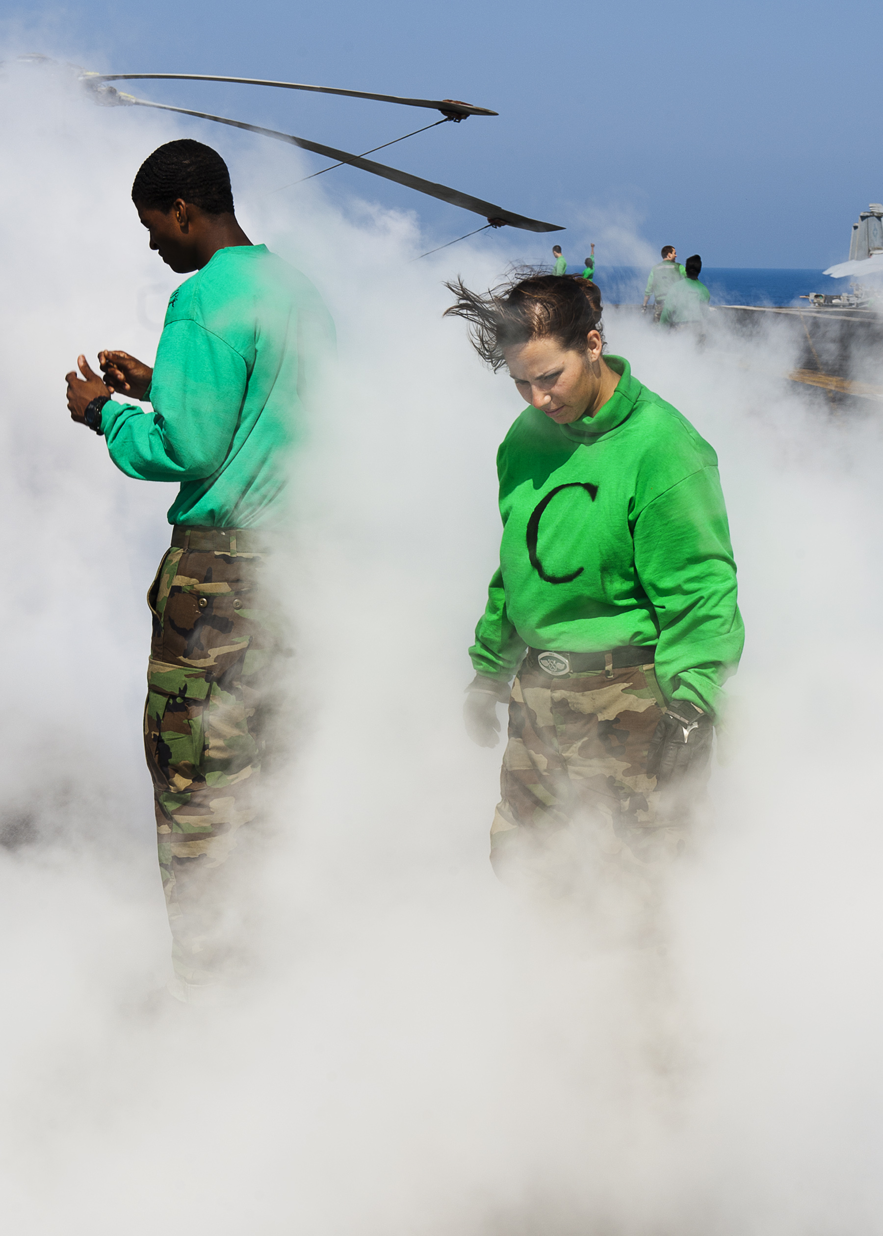 RED SEA (Oct. 11, 2012) Sailors are surrounded by steam during the test an aircraft catapult on the flight deck of the aircraft carrier USS Enterprise (CVN 65). Enterprise is deployed to the U.S. 5th Fleet area of responsibility conducting maritime security operations, theater security cooperation efforts and support missions as part of Operation Enduring Freedom. The U.S. Navy is reliable, flexible, and ready to respond worldwide on, above, and below the sea. Join the conversation on social media using #warfighting. (U.S. Navy photo by Mass Communication Specialist 3rd Class Scott Pittman/Released) 121011-N-FI736-101 Join the conversation navylive.dodlive.mil